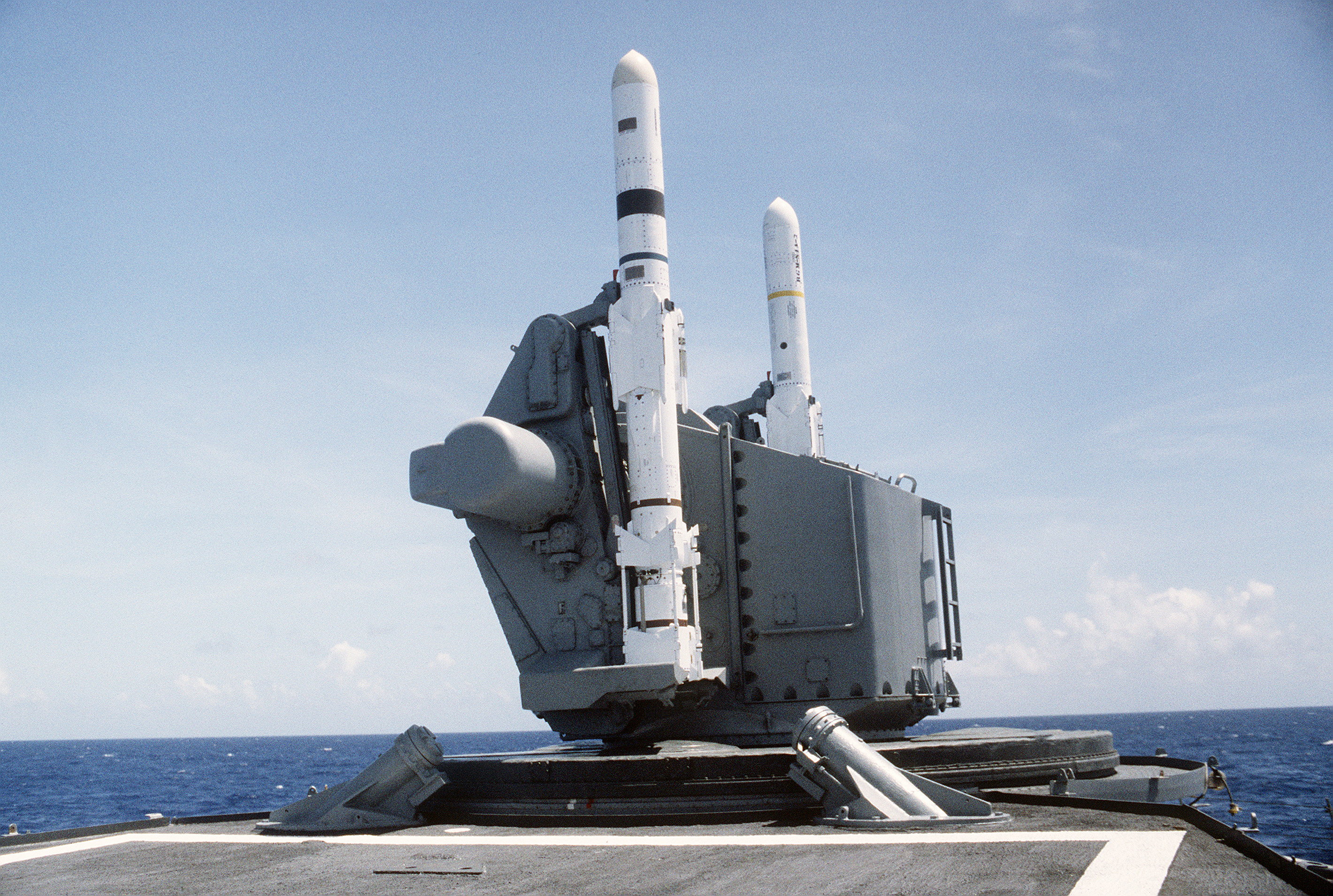 Two RGM-84A Harpoon antiship cruise missiles are mounted in the loading position on an Mk 11 launcher aboard the guided missile destroyer USS LAWRENCE (DDG 4). The missiles will be fired at a target hulk during Exercise READEX 2-83 near Vieques Island, Puerto Rico.